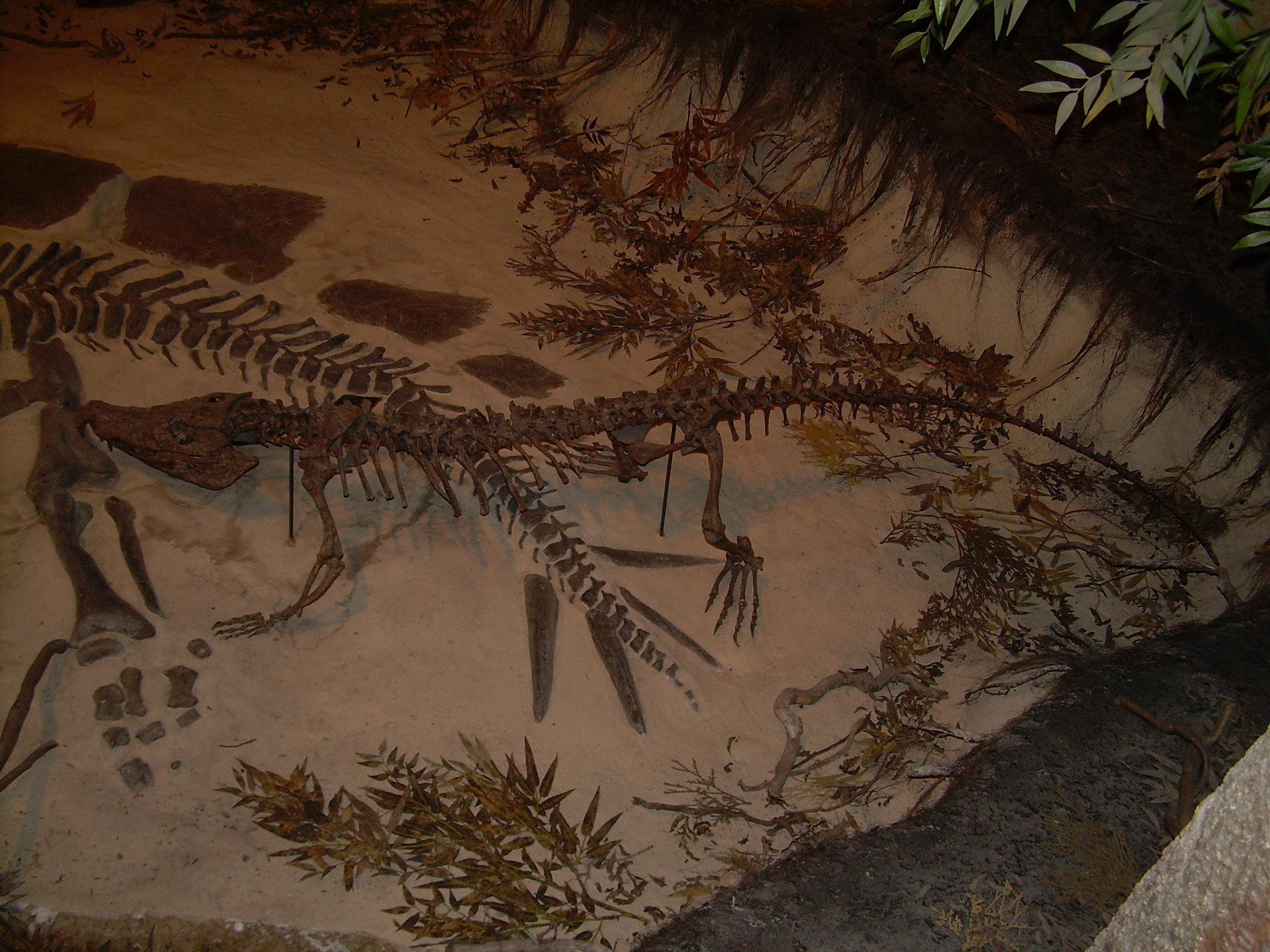 Photograph of a fossil cast of a Goniopholis gilmorei skeleton (shown feeding on a Stegosaurus skeleton) taken at the North American Museum of Ancient Life.